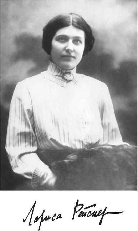 Bolshevik revolutionary leader, member of Red Army, educator, diplomat, Larissa Reisner.